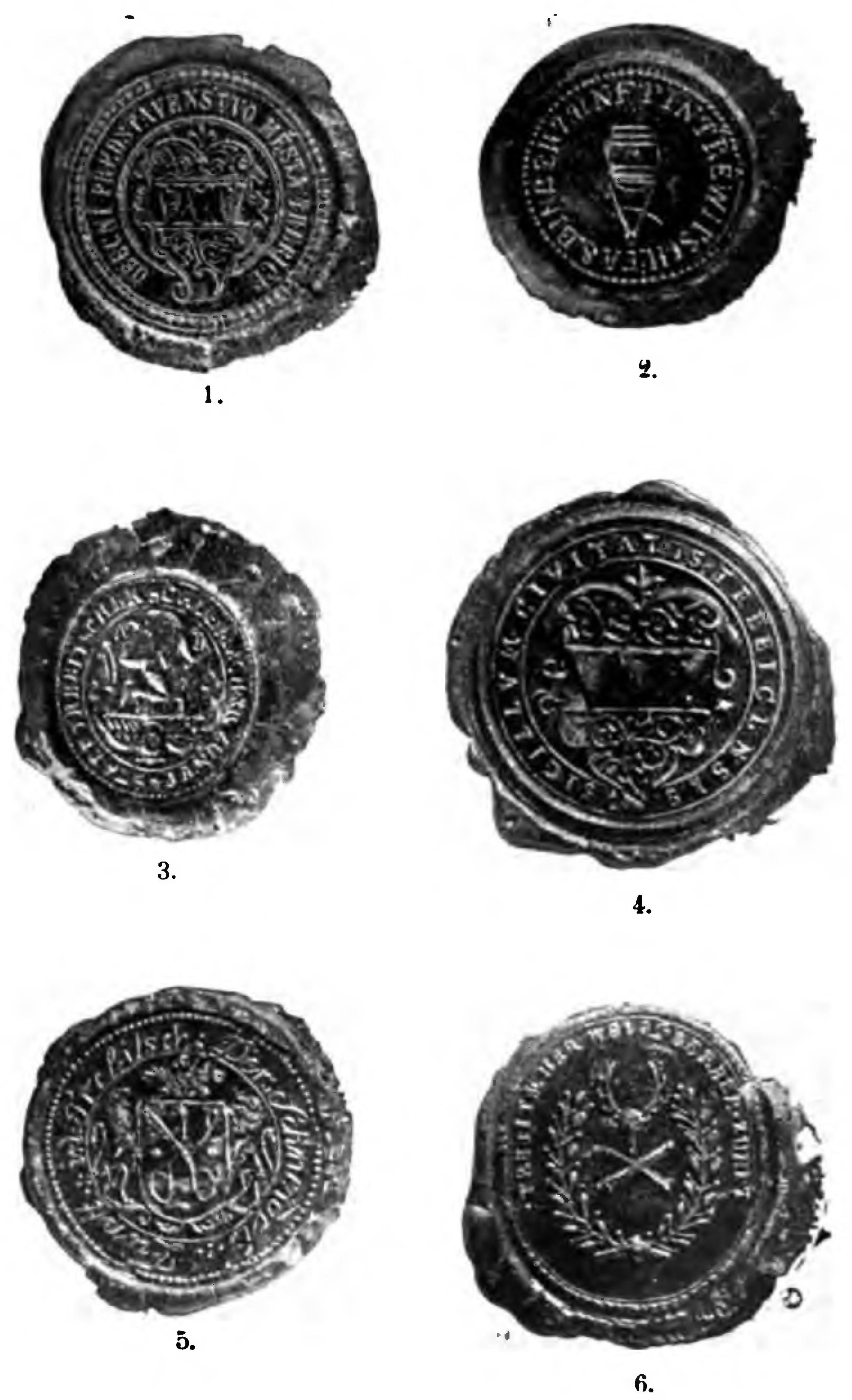 Pic. 30. 1. City seal from year 1867. 4. City seal from year 1571. 2. Cooper seal , 3. Shoemaker seal, 5. Tailor seal, 6. Leather manufacturer seal (all 4 from new times).